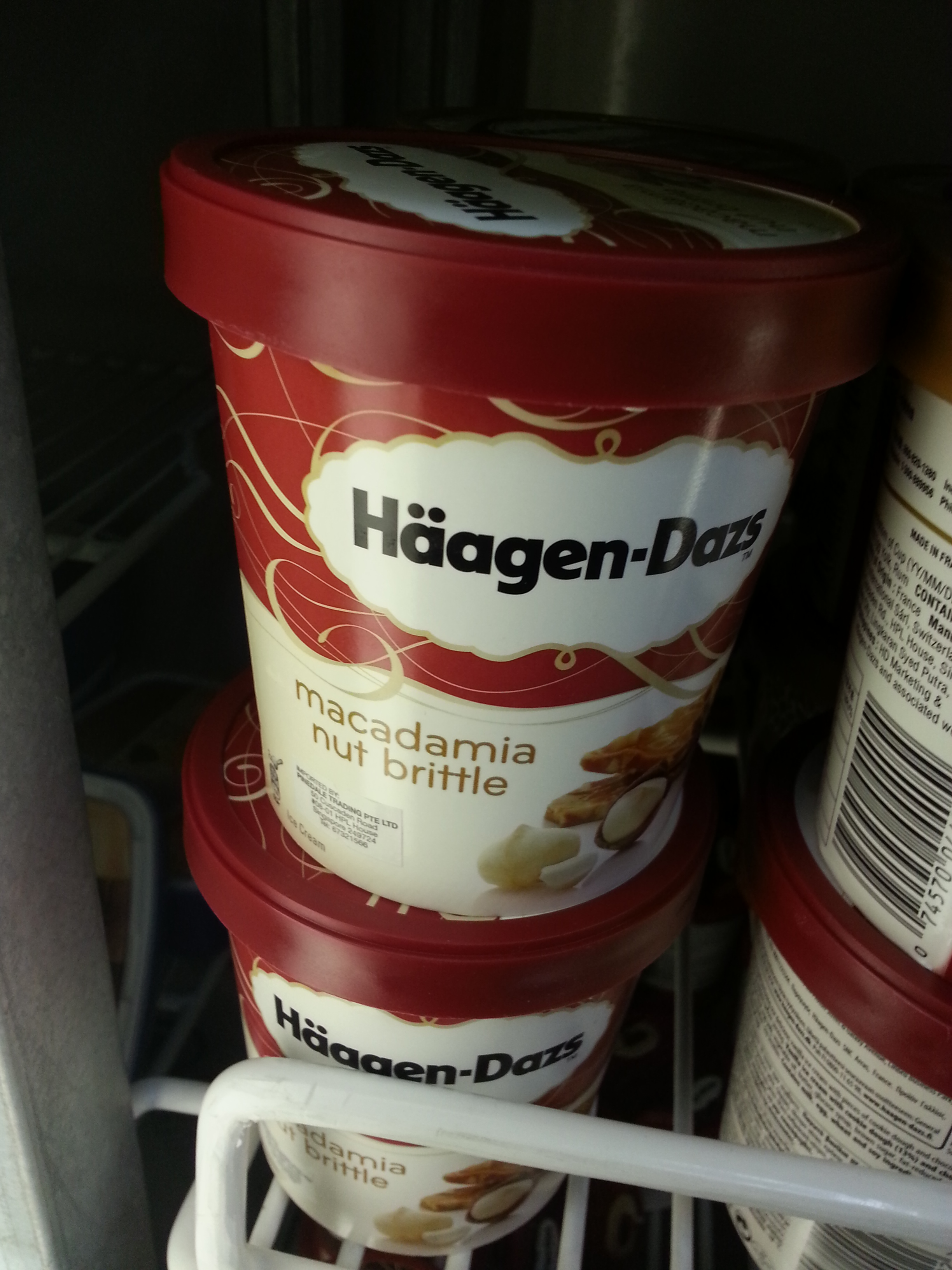 Taken at a petrol kisok